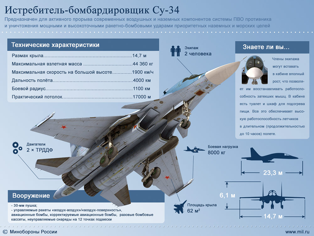 Sukhoi Su-34 infographic